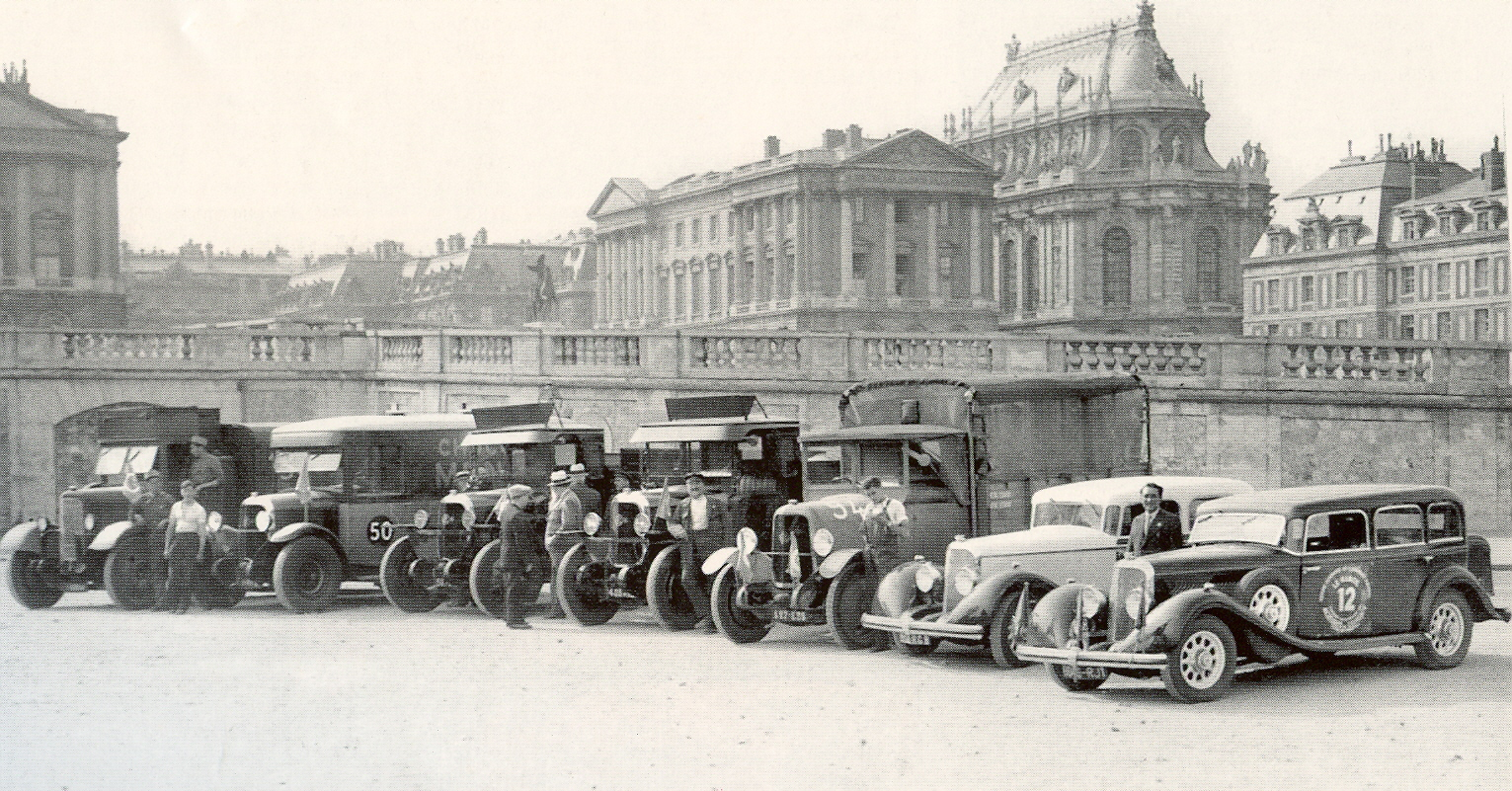 Choice of contemporary Panhard & Levassor vehicles in front of Versailles Palace.